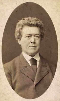 Ludvig Harald Gade (1823-1897), Danish ballet dancer and mimics artist